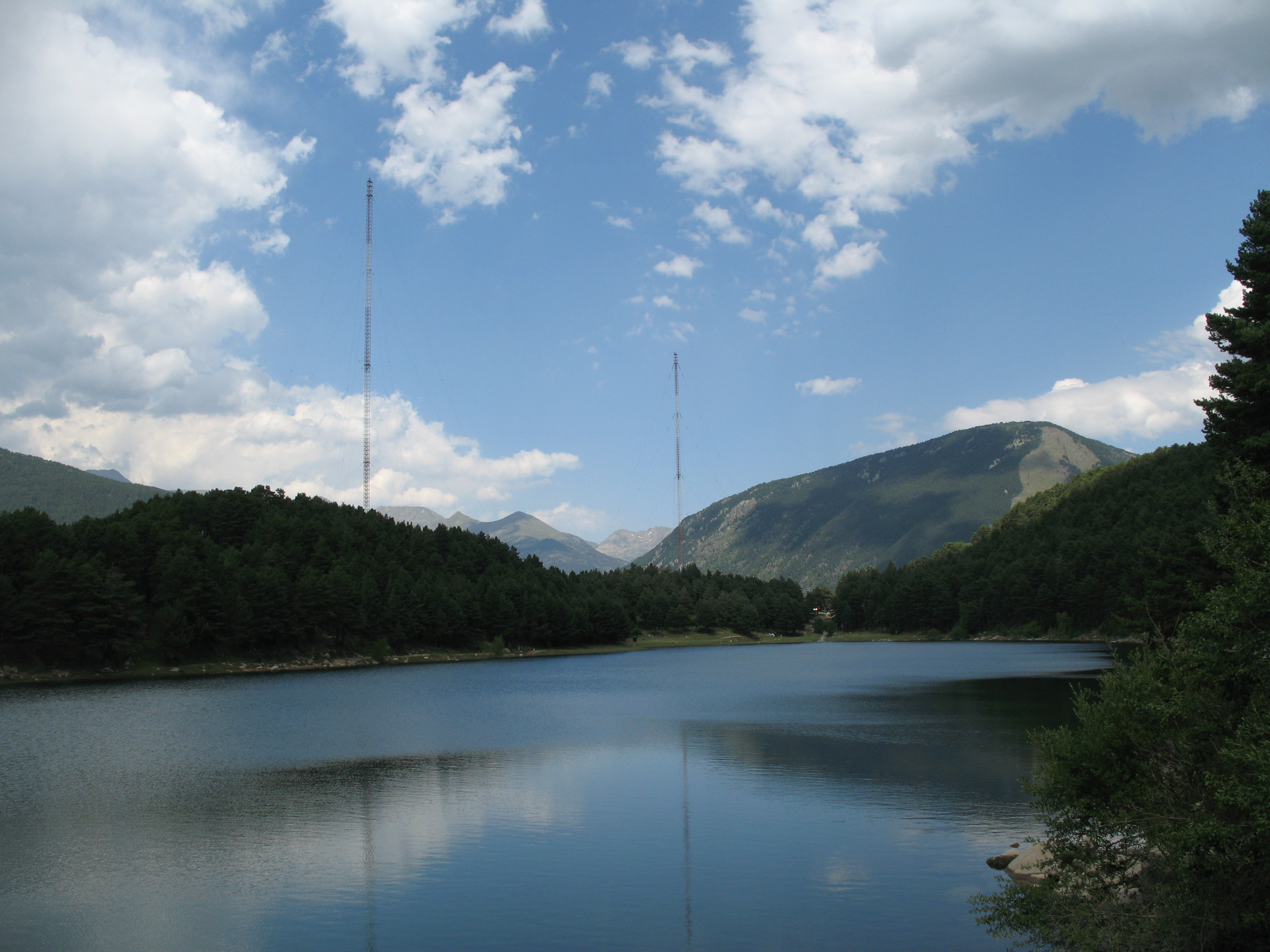 A Radio Andorre broadcast antenna at Engolasters Lake.